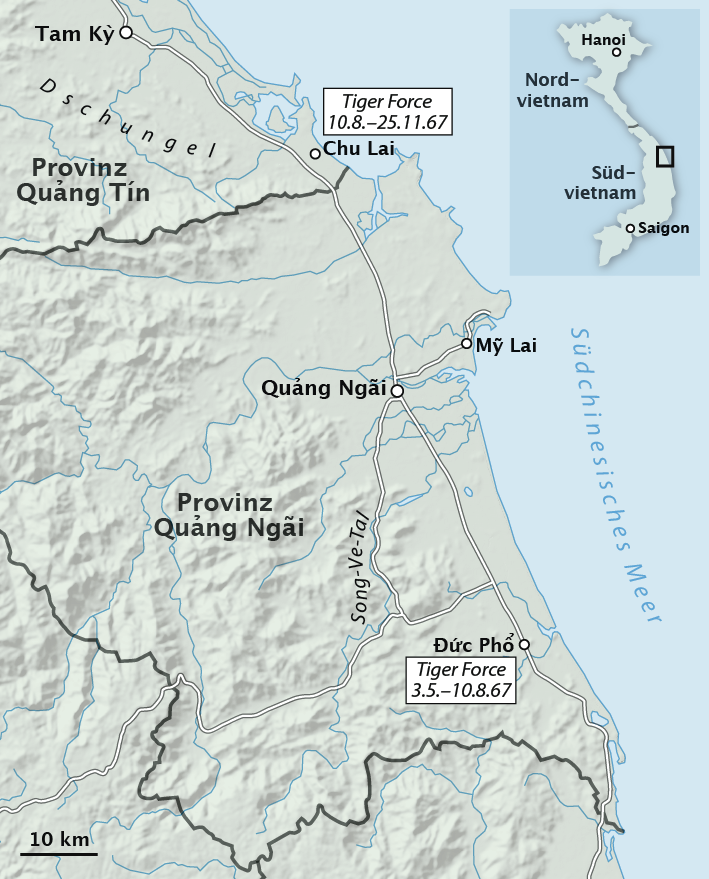 Map of the operation area of the Tiger Force in Vietnam in 1967